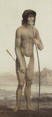 Mohave chief Irataba, lithograph by Balduin Möllhausen, published in 1857.